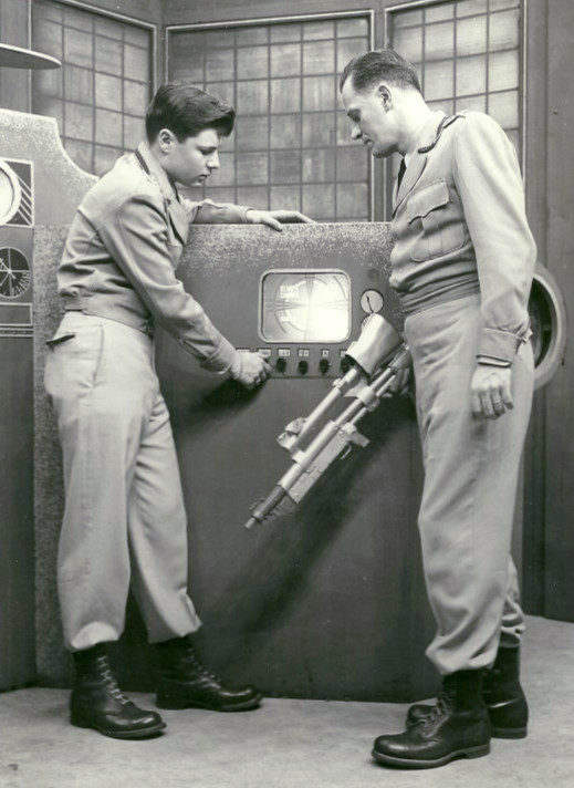 Photo of Al Hodge and his Video Ranger (Don Hastings) using a scanner on the television program Captain Video.